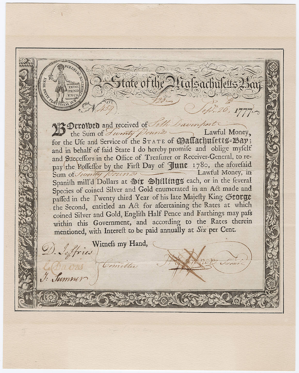 Printed loan certificate from the Massachusetts Bay Colony (State of Massachusetts) acknowledging a loan to the treasury by Seth Davenport and signed by Henry Gardiner on behalf of Massachusetts. Image courtesy of the Beinecke Rare Book & Manuscript Library, Yale University.